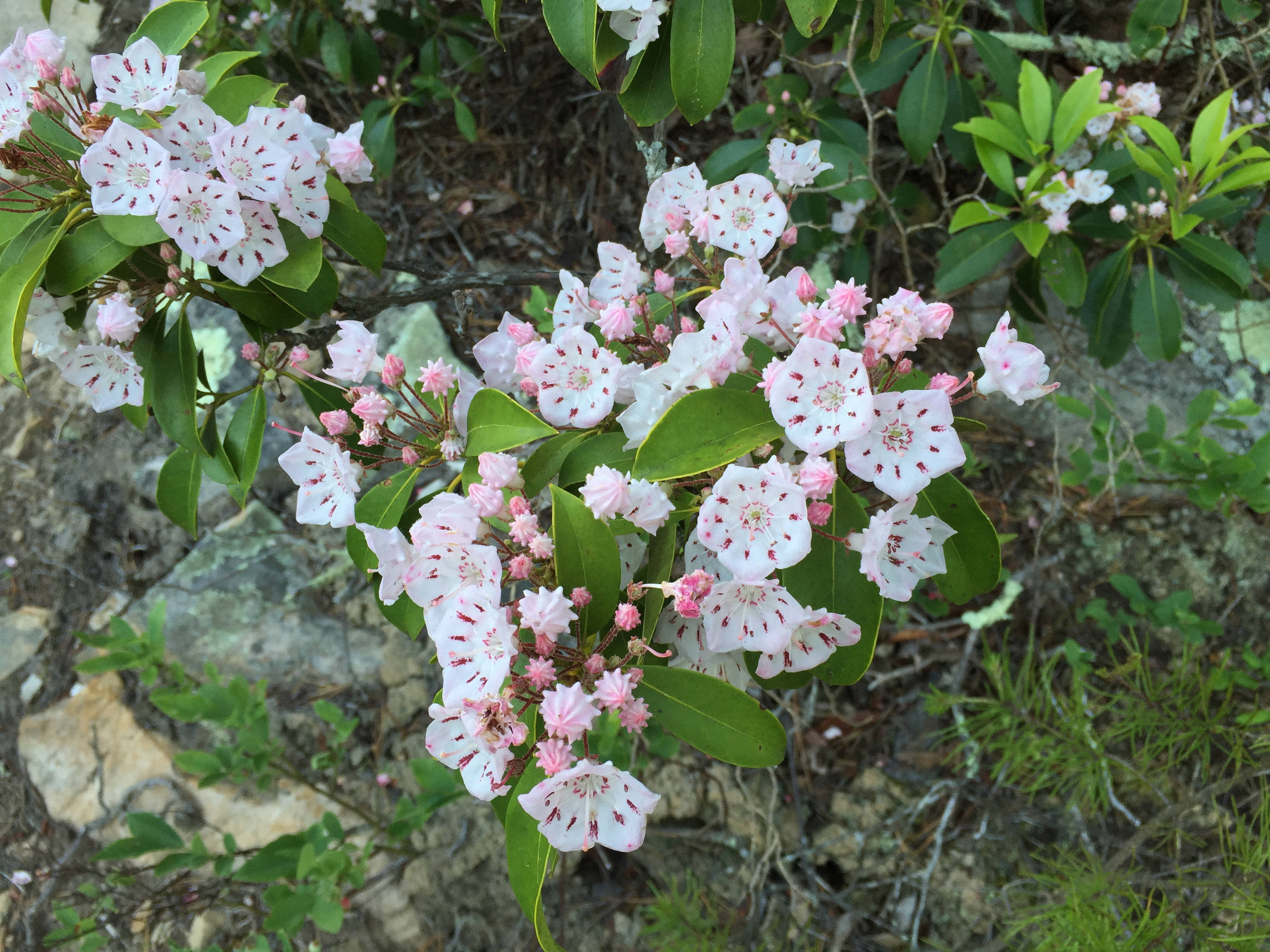 Mountain Laurel blossoms near Look Rock on Chilhowee Mountain in Great Smoky Mountains National Park, within Blount County, Tennessee